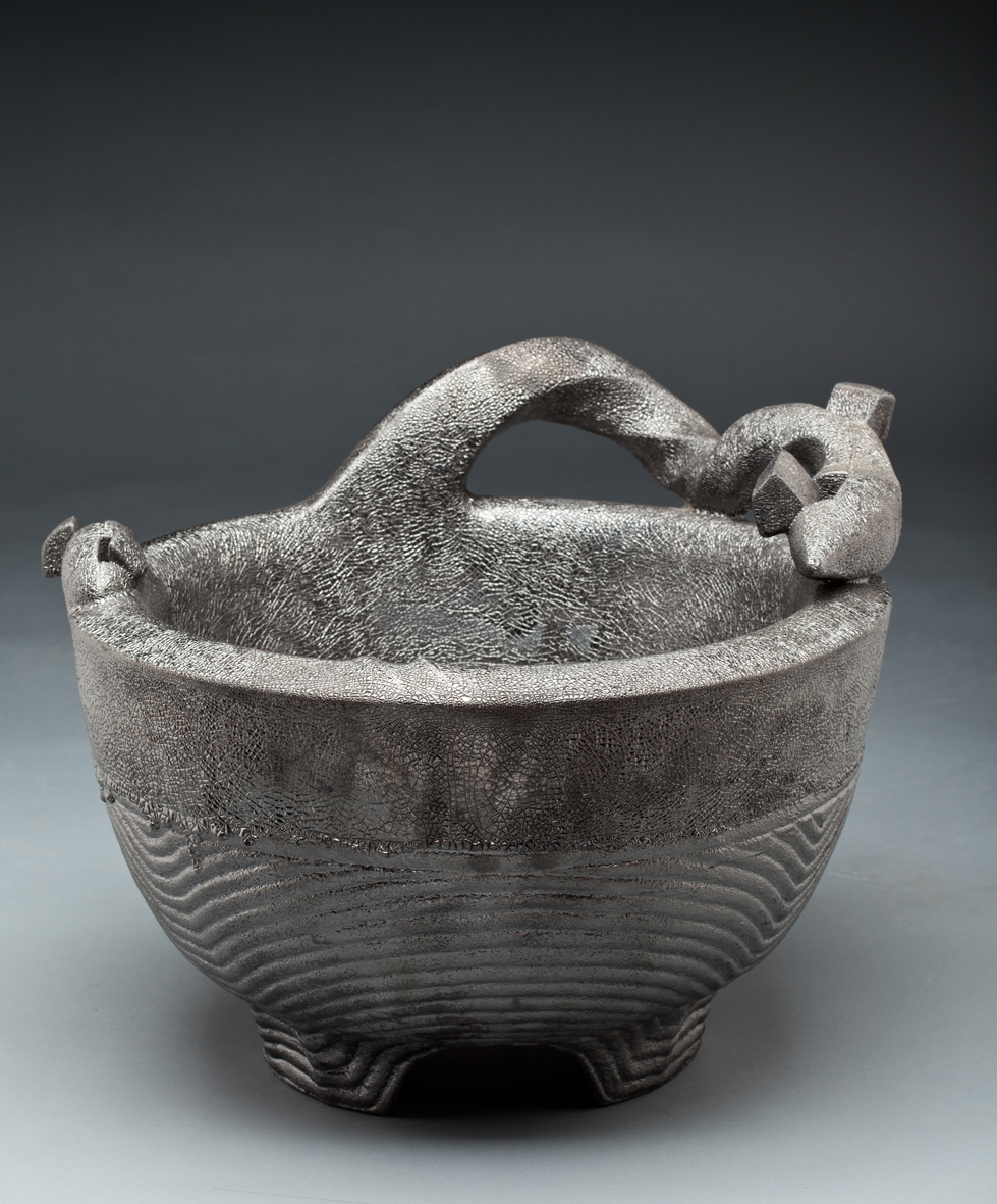 Double-walled Caldron from the ("Fragility Series"), saggar fired, 20 in. high x 20 in. wide, photo by Jon Thompson.